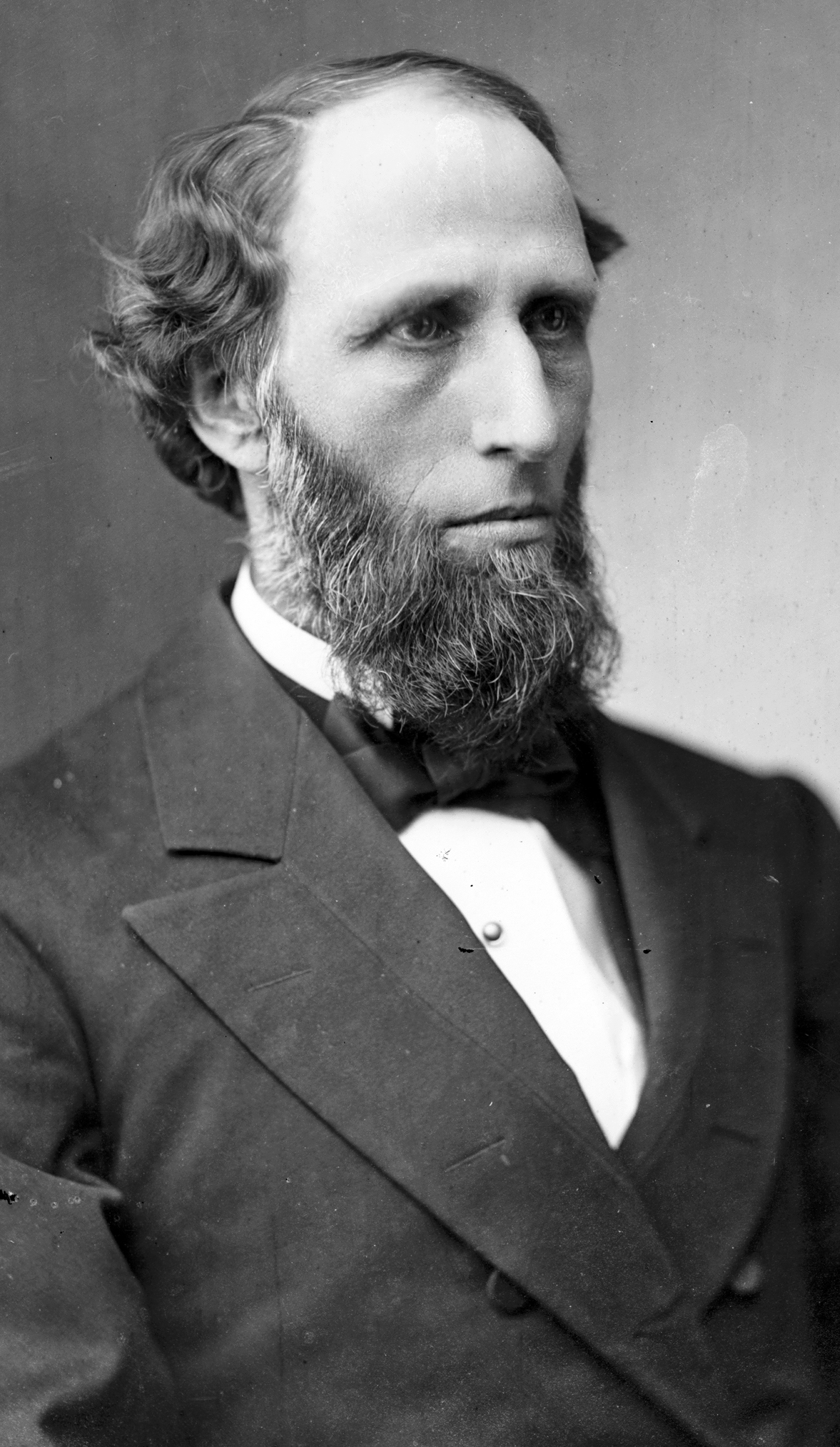 Nathaniel Cobb Deering, US Representative from Iowa